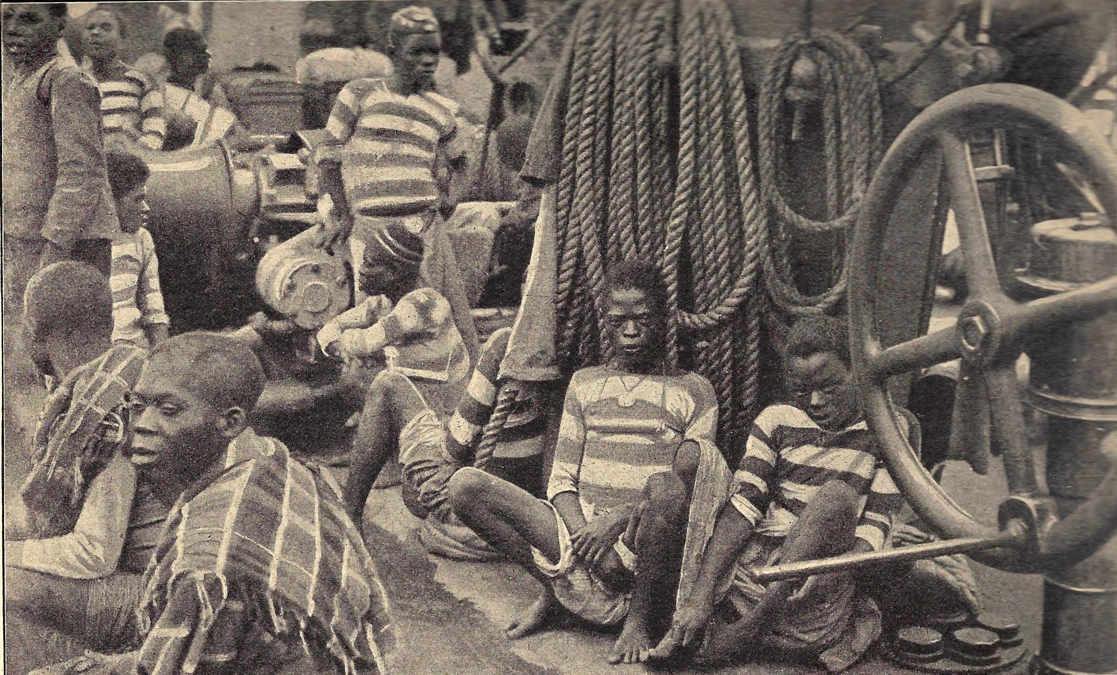 Slaves on the top of a ship (circa 1900) Source Conrad Alberti-Sittenfeld : Die Eroberung der Erde. (The conquest of the earth). Ullstein Verlag, Berlin, Vienna, 1909, p 225